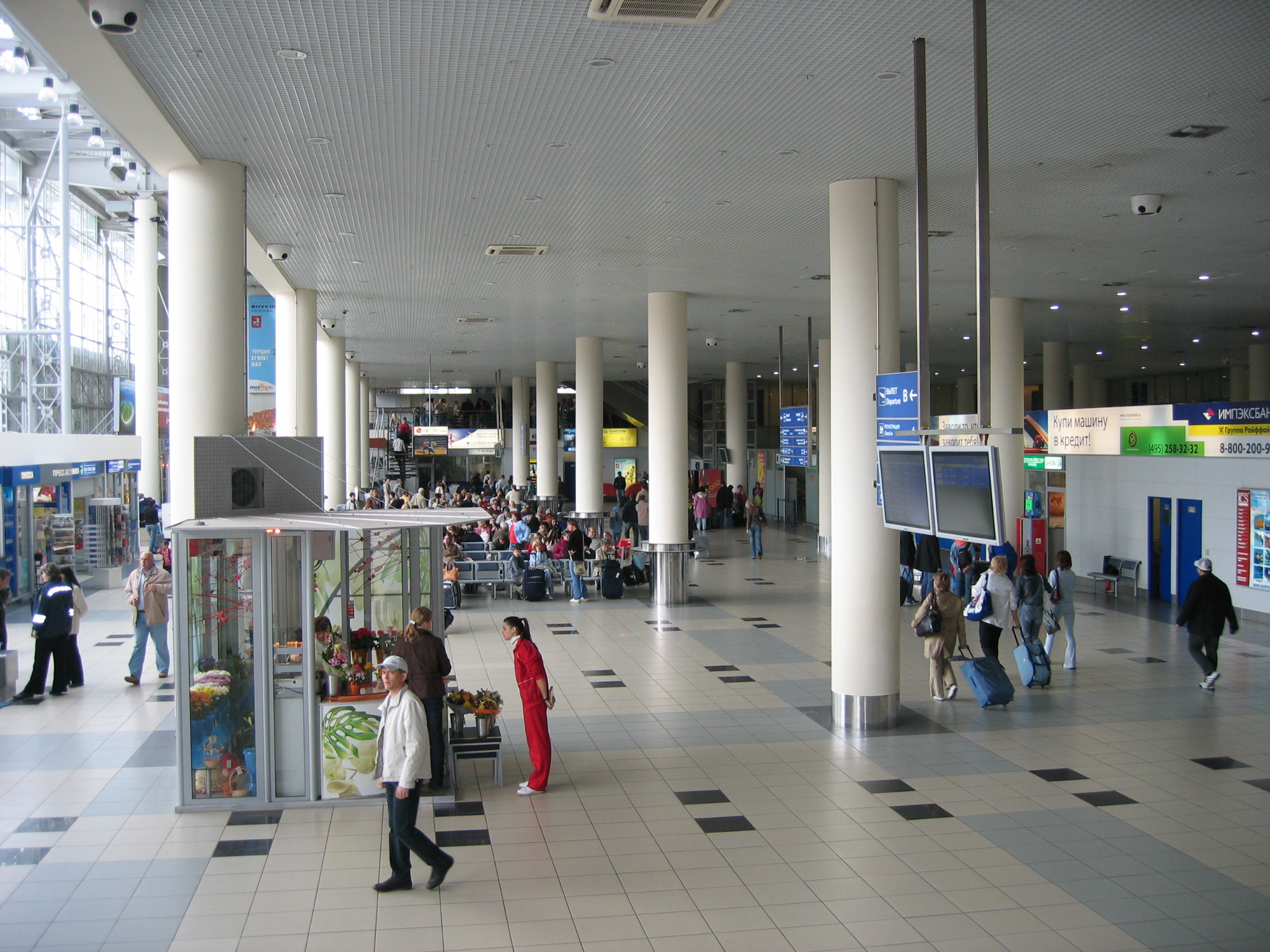 Vnukovo Airport, international terminal